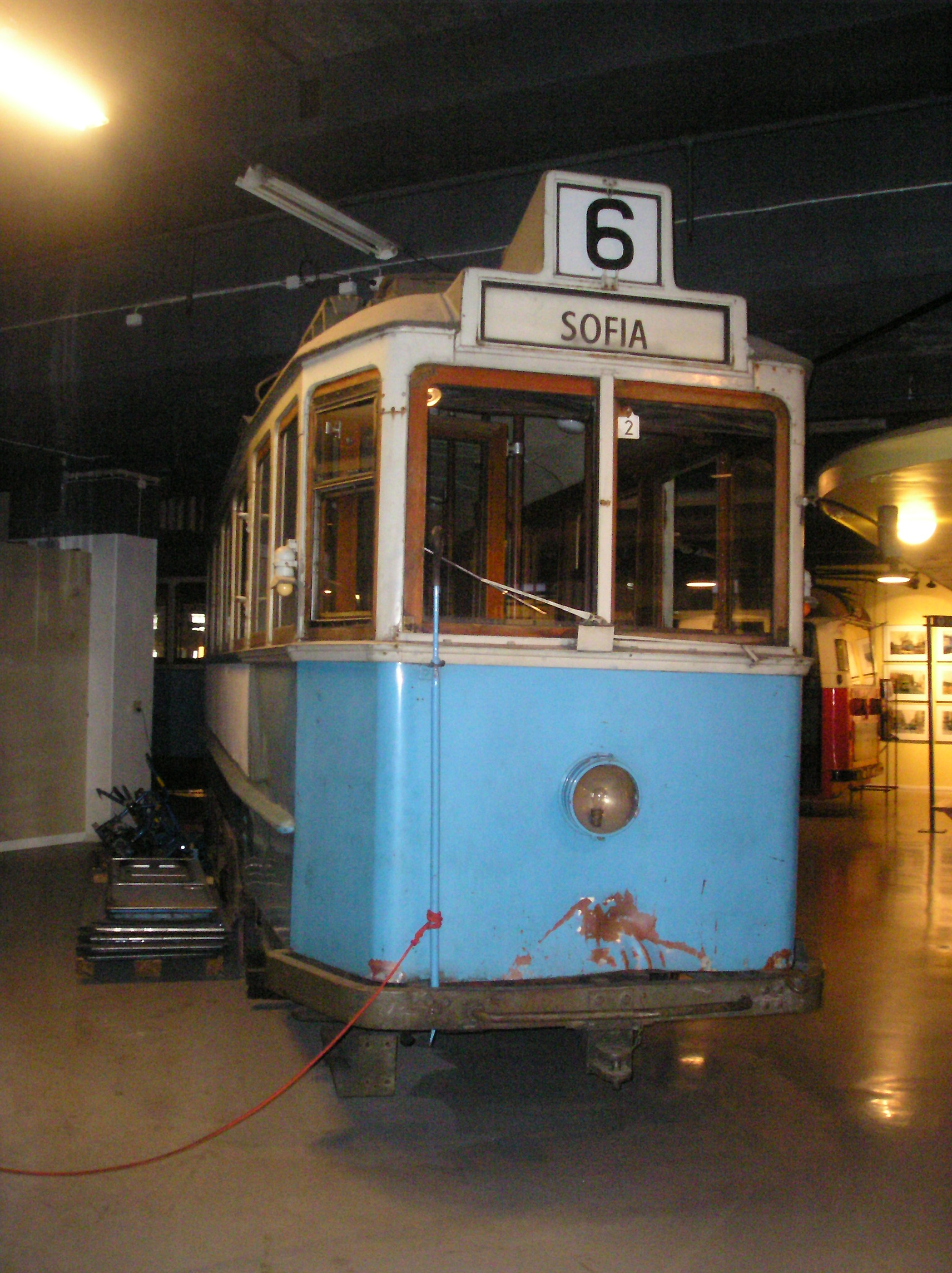 Tram from Stockholm SS A5 52 from 1947 at Spårvägsmuseet in Stockholm.